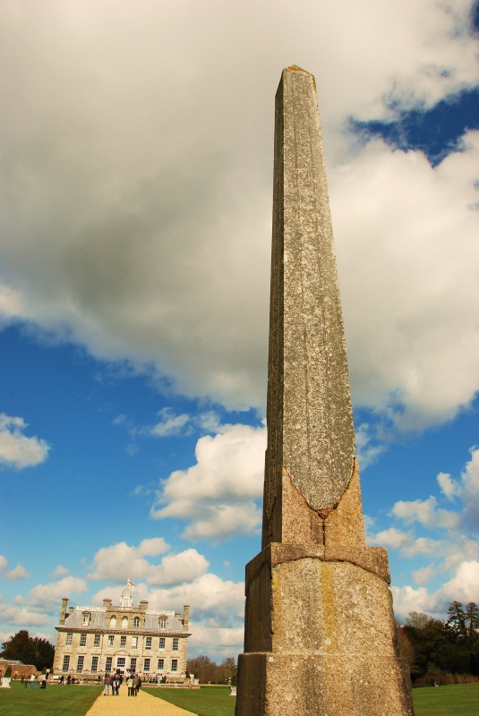 Kingston Lacy: Egyptian obelisk and House